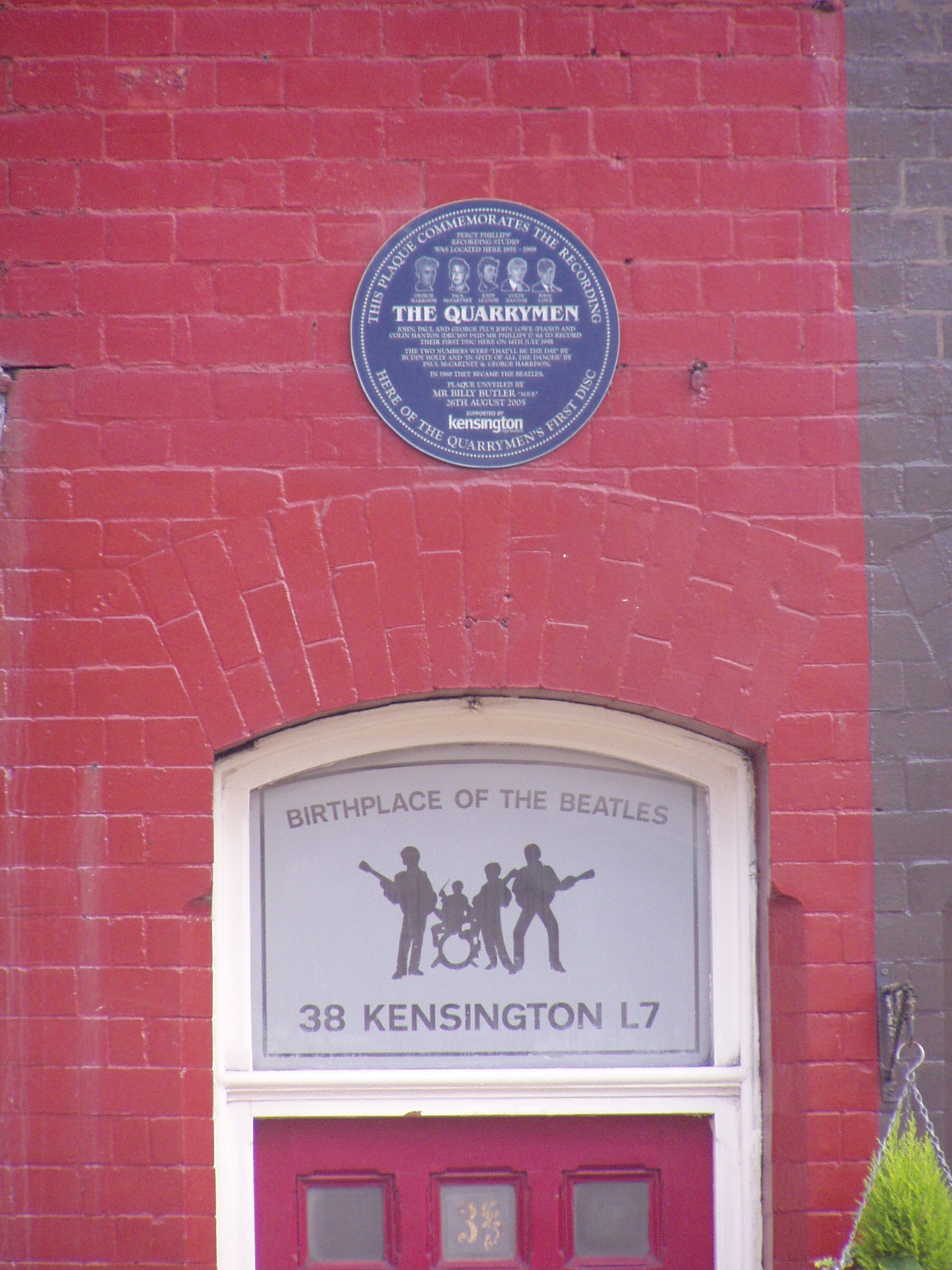 Base of Philip's Soundio Recording STudio.